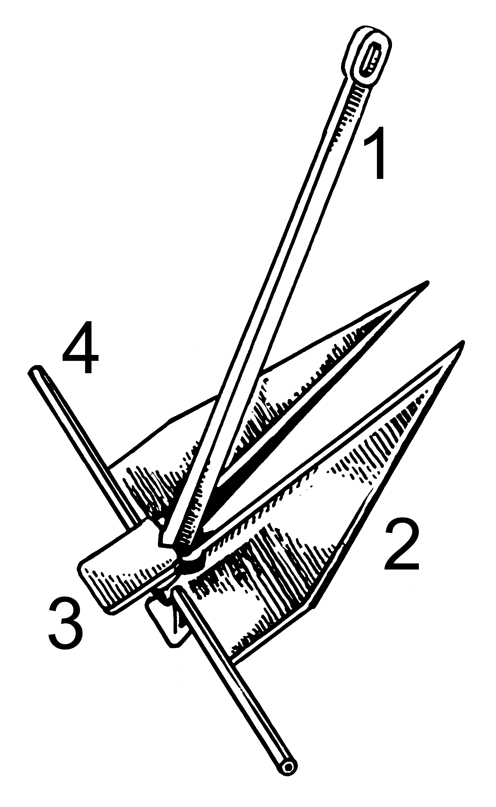 Line art drawing of an anchor. Shank Fluke Crown Stock